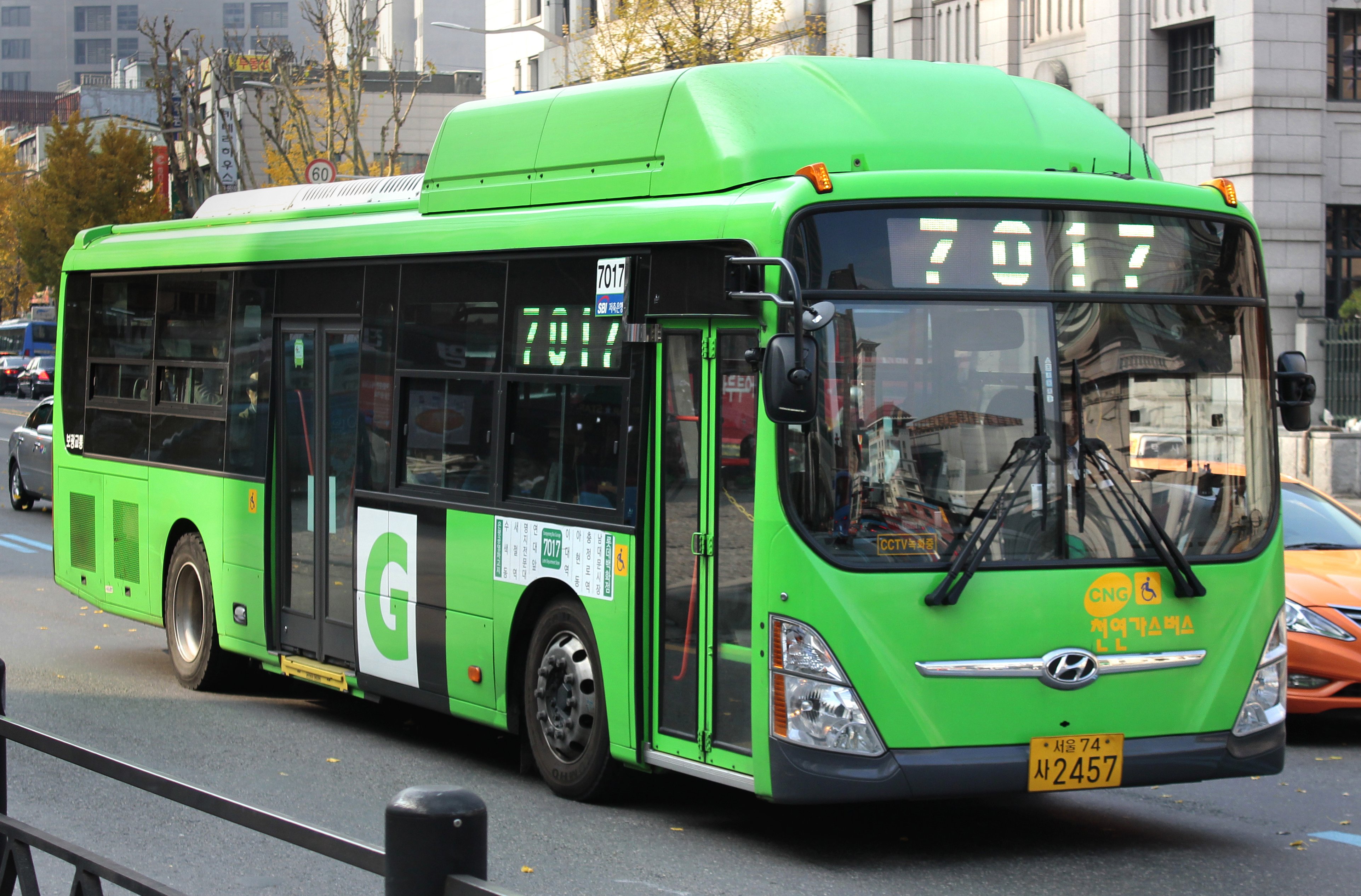 Hyundai AeroCity Non-step Motorcoach